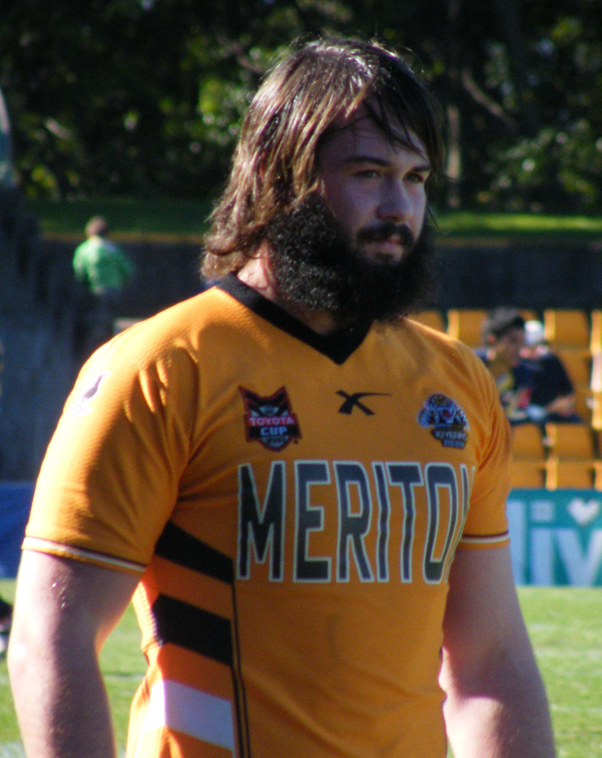 Aaron Woods of the Wests Tigers RLFC